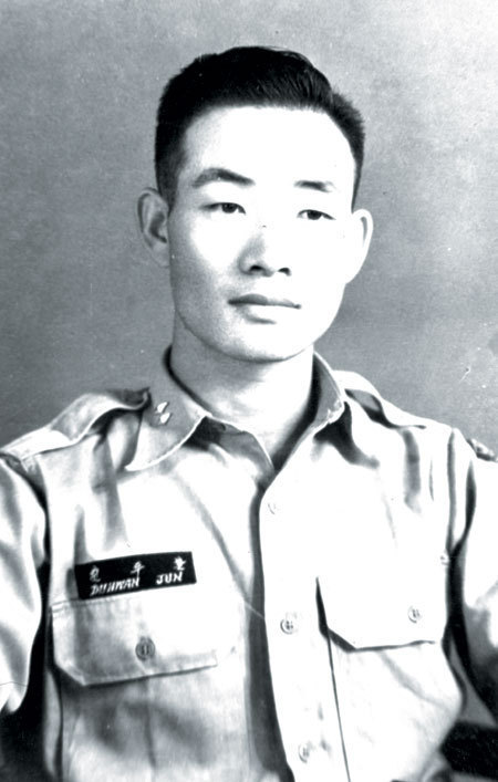 First lieutenant Jeon Du-hwan, 1957.10